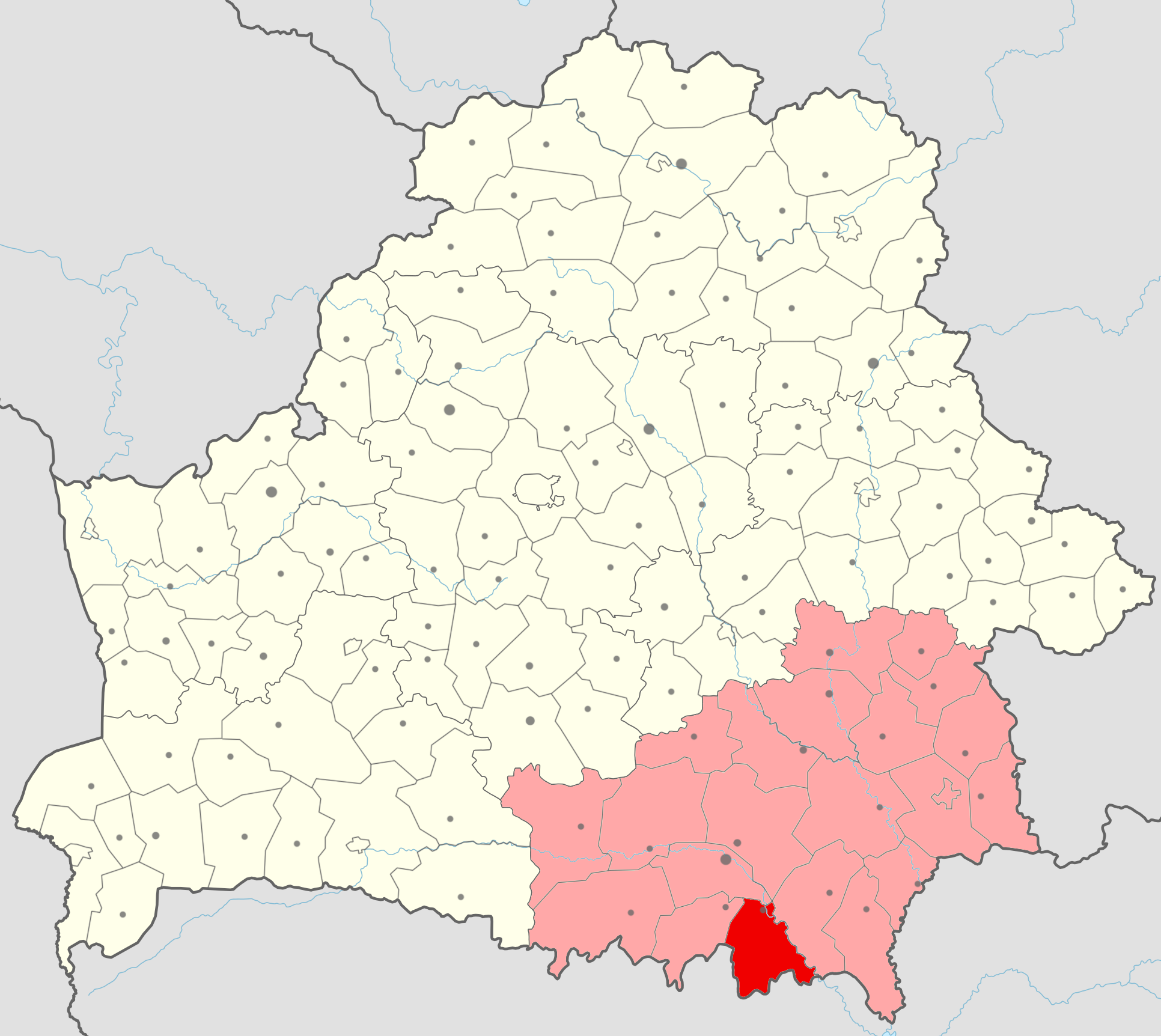 Location of Naraŭlianski rajon (red) in Homieĺskaja voblasć (light red) in Belarus.